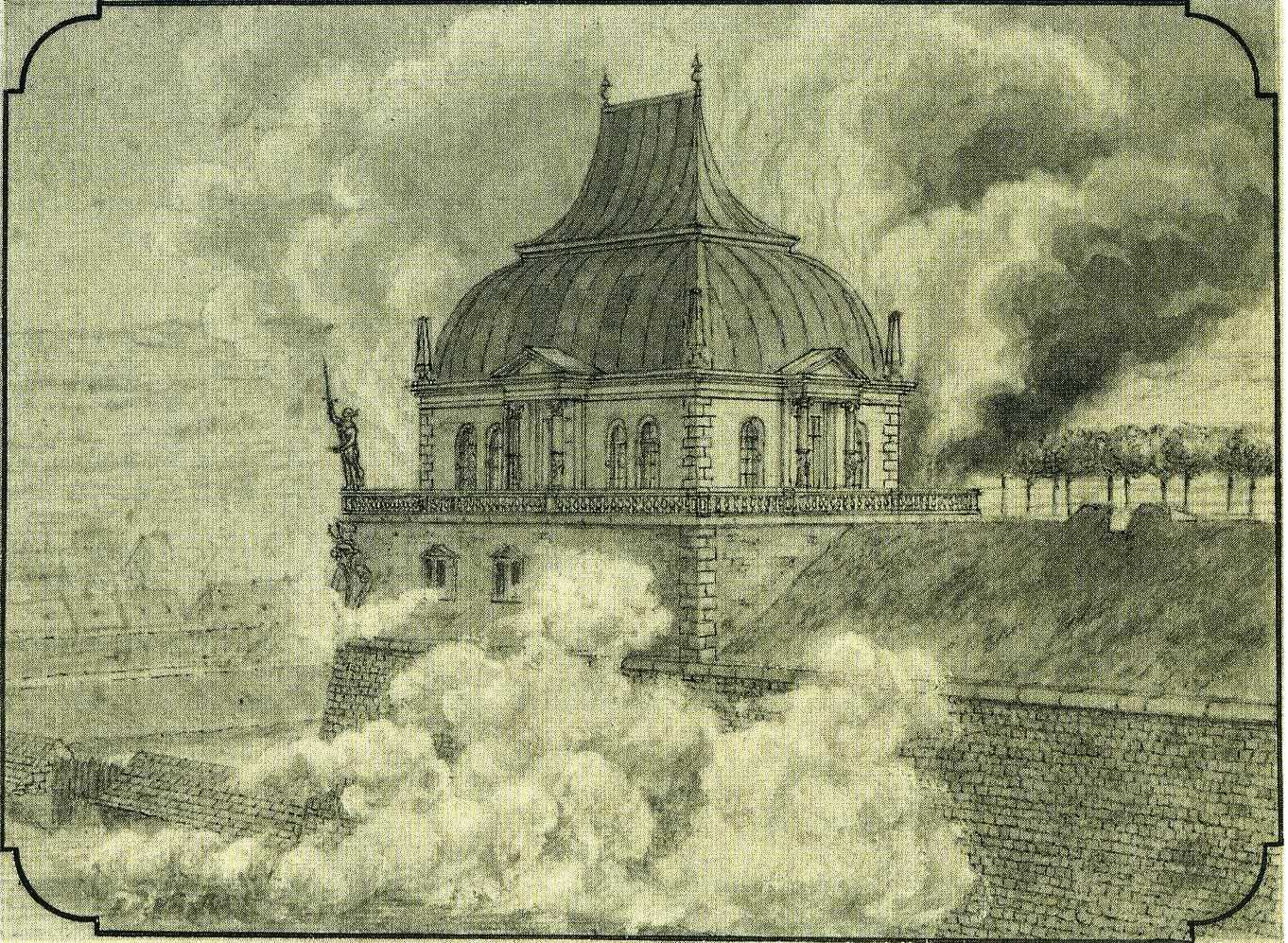 Erstes Belvedere